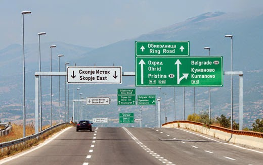 Interchange